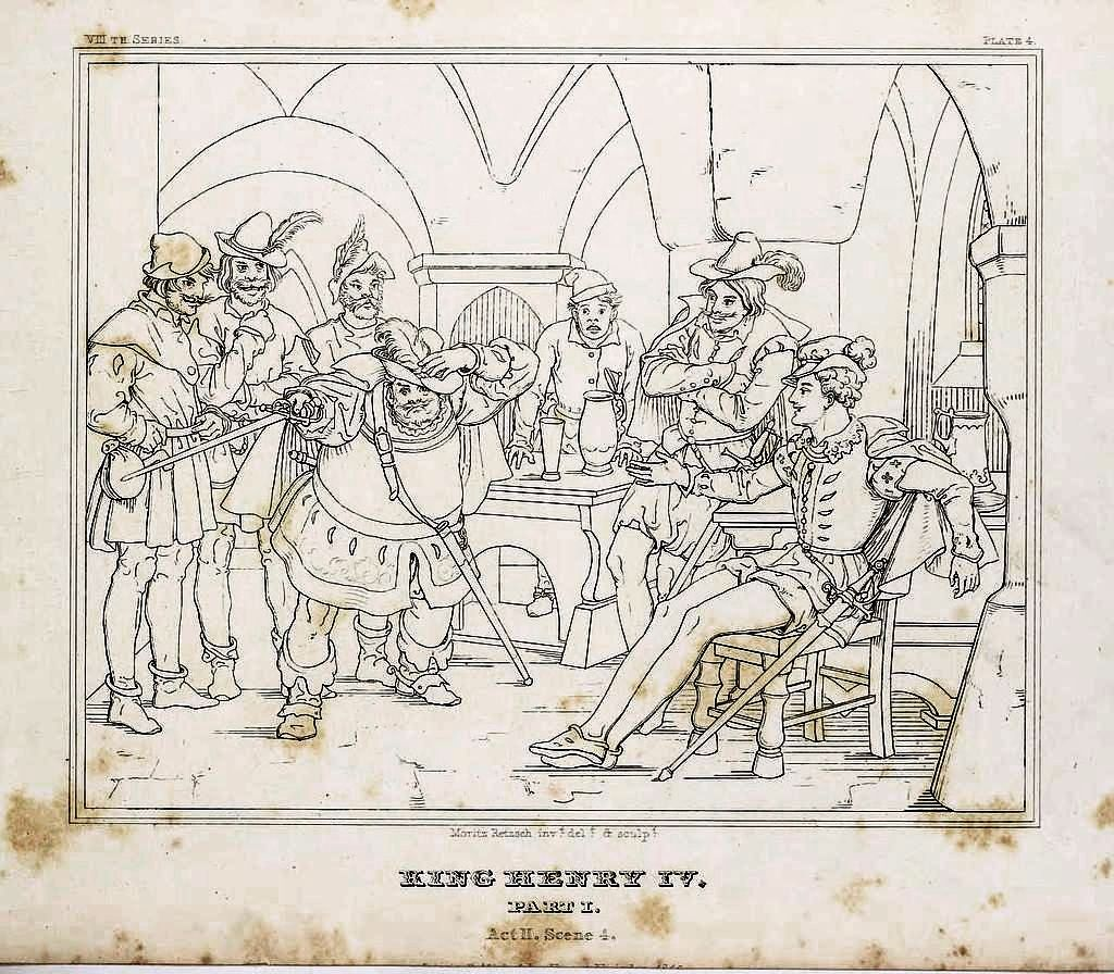 Henry IV part 1 act_II_scene_4 from Moritz Retzsch, Gallery to Shakespeare's dramatic works (New-York, 1853)